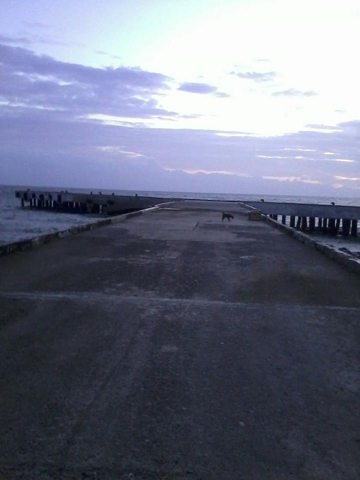 Lamao Port is the official seaport of Liloy, Zamboanga del Norte located at Lamao, Liloy, Zamboanga del Norte managed by the Philippine Ports Authority(PPA).